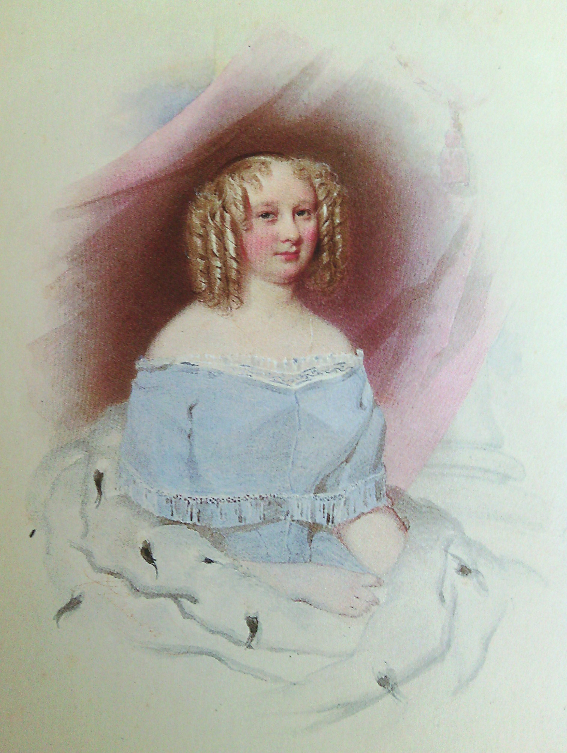 Sophia Alexandrovna Radziwiłł (1804—1889)